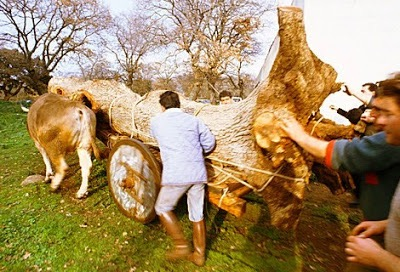 Sant'Antoni 'e su fogu